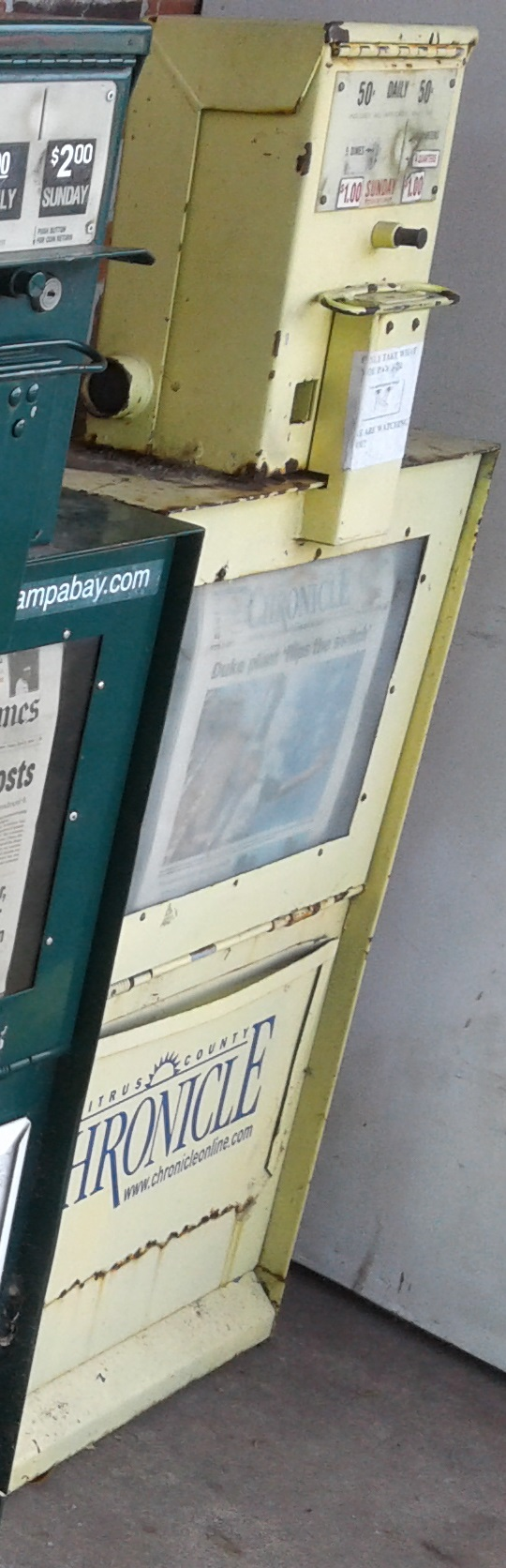 Citrus County Chronicle newspaper rack